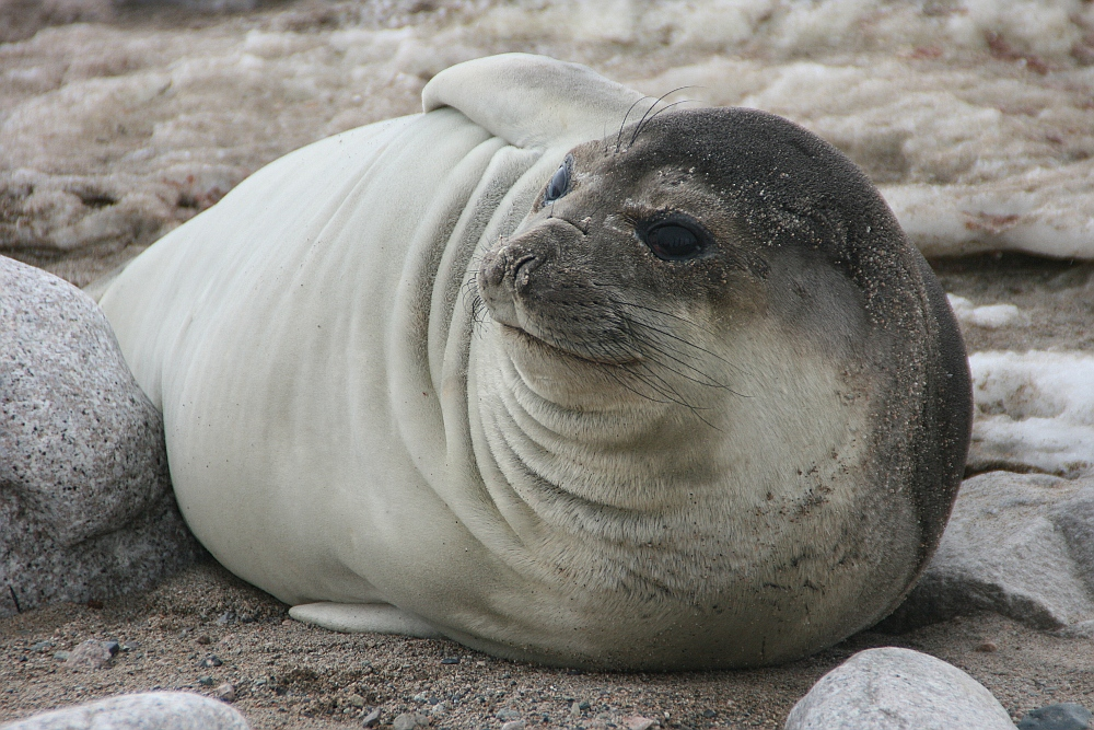 A female southern elephant seal Mirounga leonina